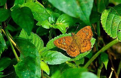 by Dhaval Momaya. November 2005 in Silent Valley NP.